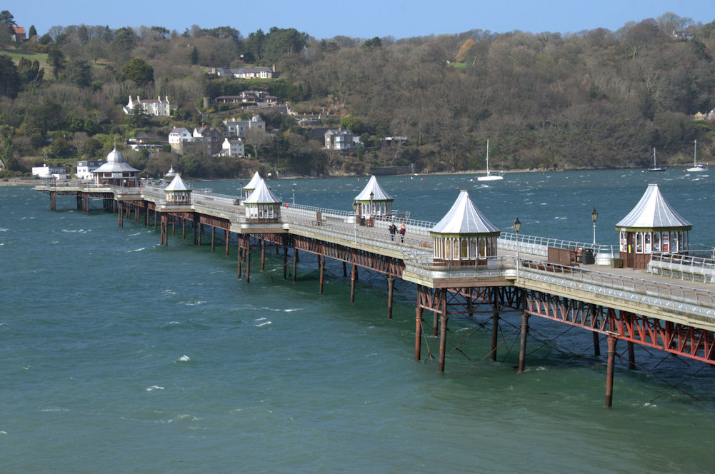 Garth Pier is a Grade II listed structure in Bangor, Gwynedd, North Wales. At 1,500 feet (460 m) in length, it is the second-longest pier in Wales, and the ninth longest in the British Isles